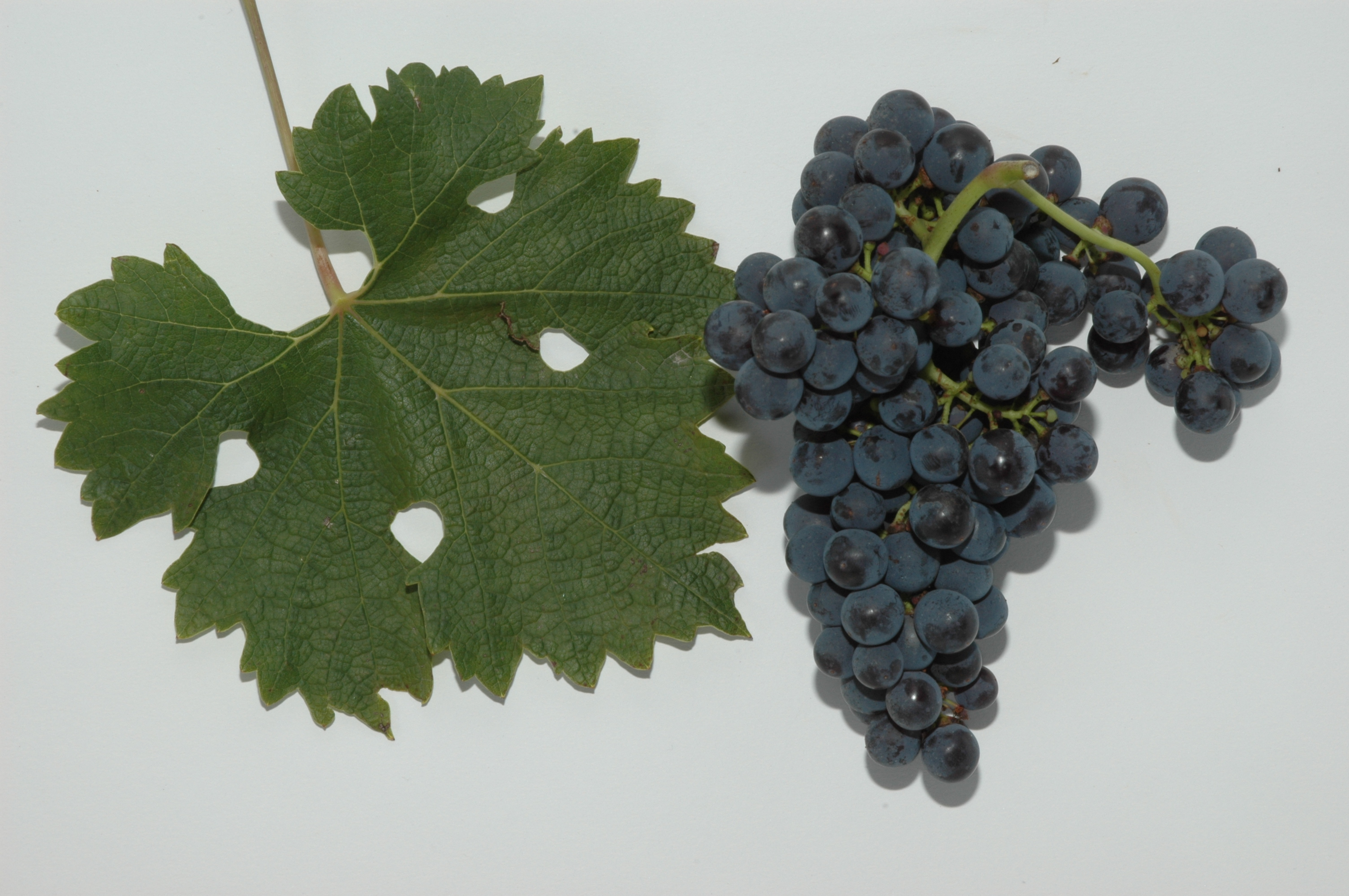 Cabernet Sauvignon